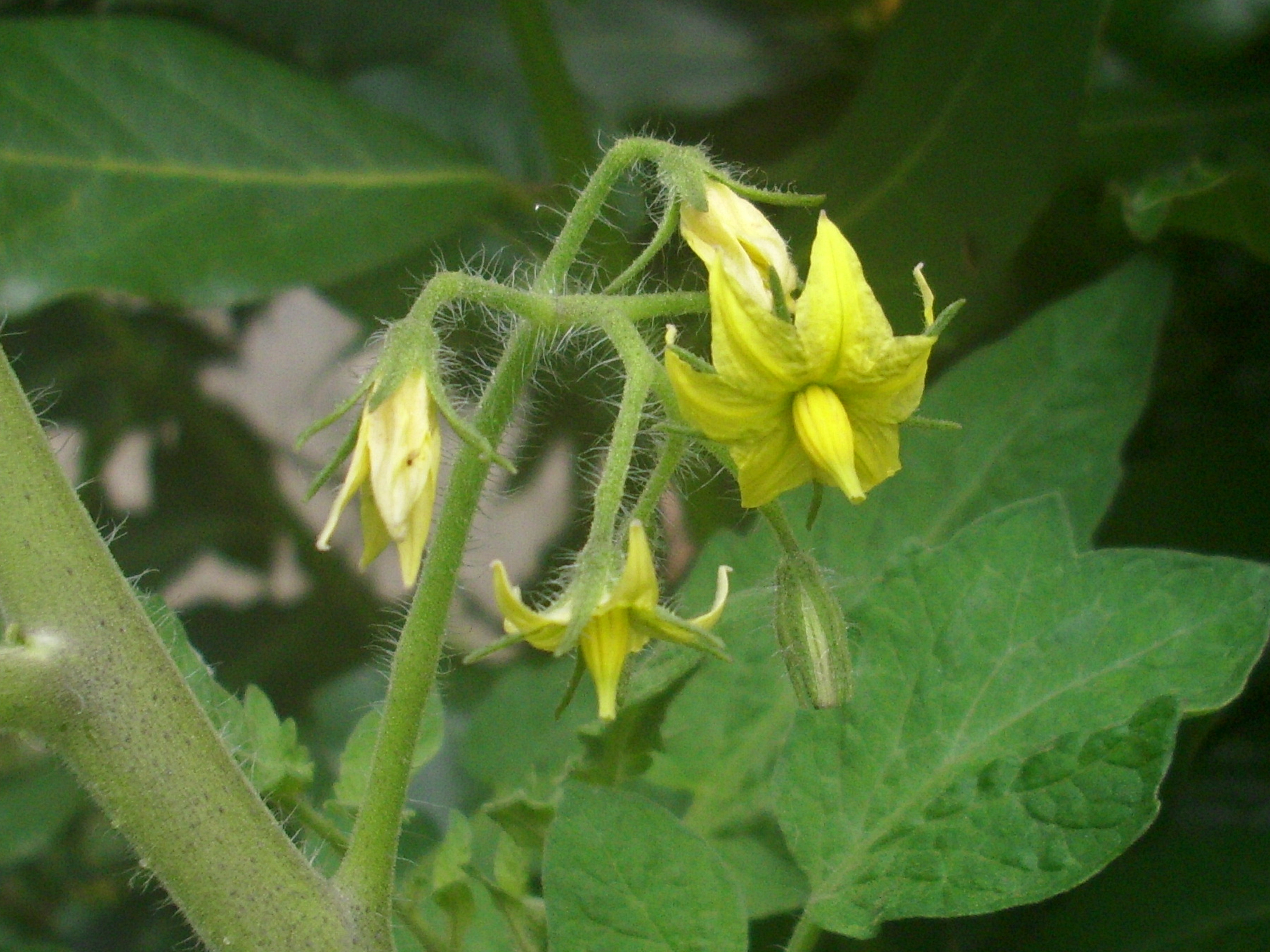 Tomato "San Marzano" flowers